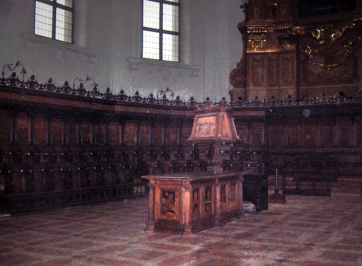 Choir of the Basilica of Saint Dominic, Bologna, Italy